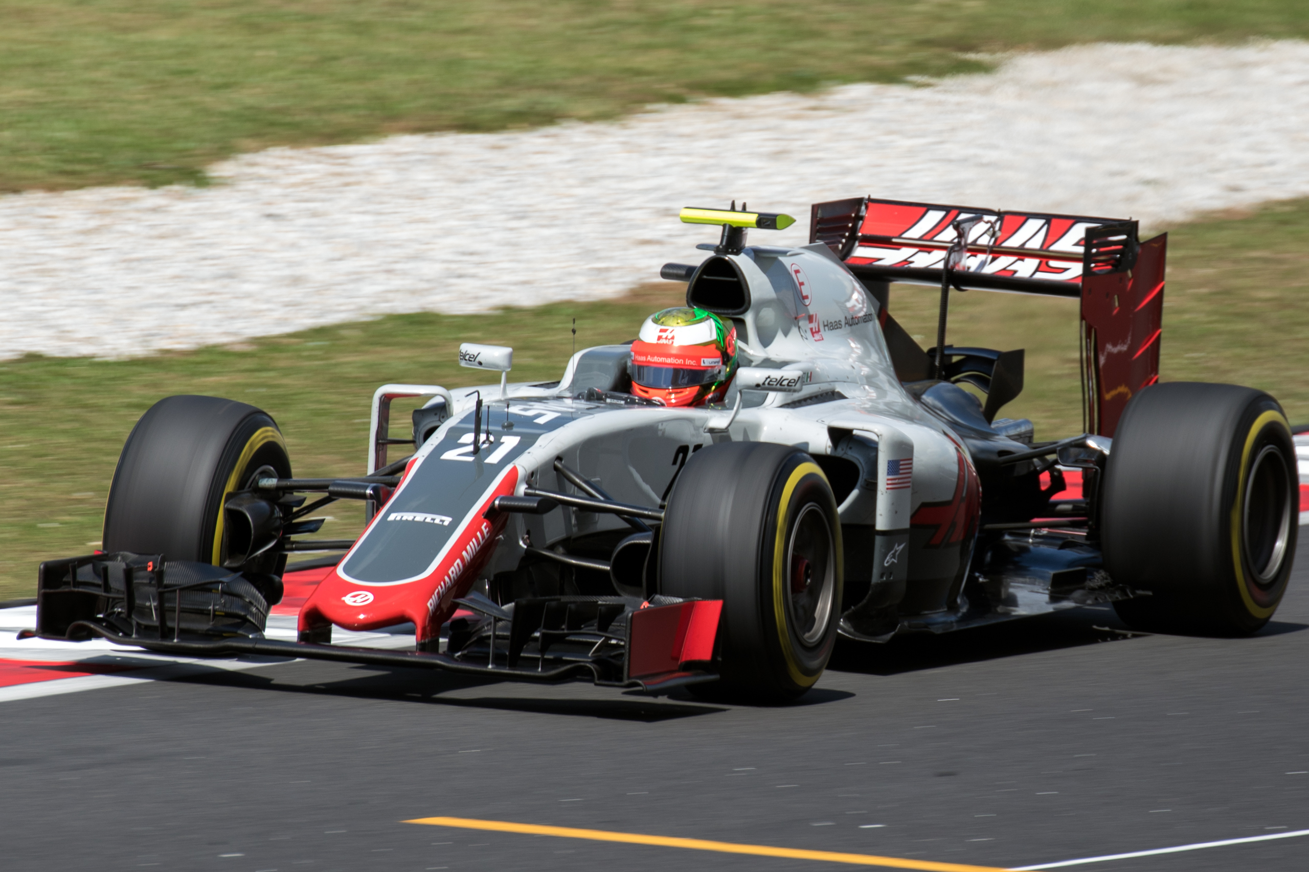 Formula One 2016 Rd.16 Malaysian GP: Esteban Gutiérrez (Haas F1 Team)